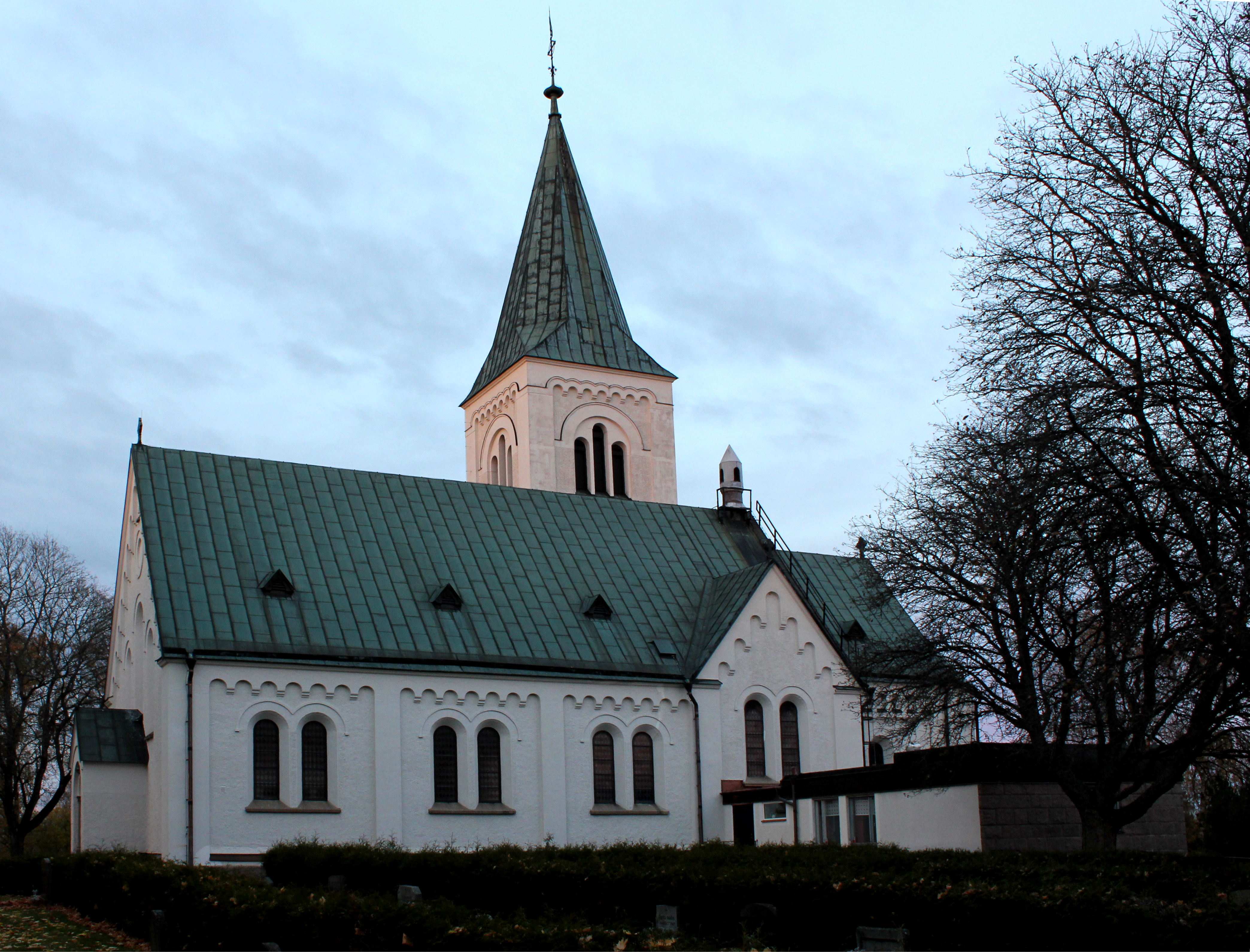 Sura kyrka/Sura Church, Surahammar Municipality, Sweden. Main church for parish of Sura, Church of Sweden.